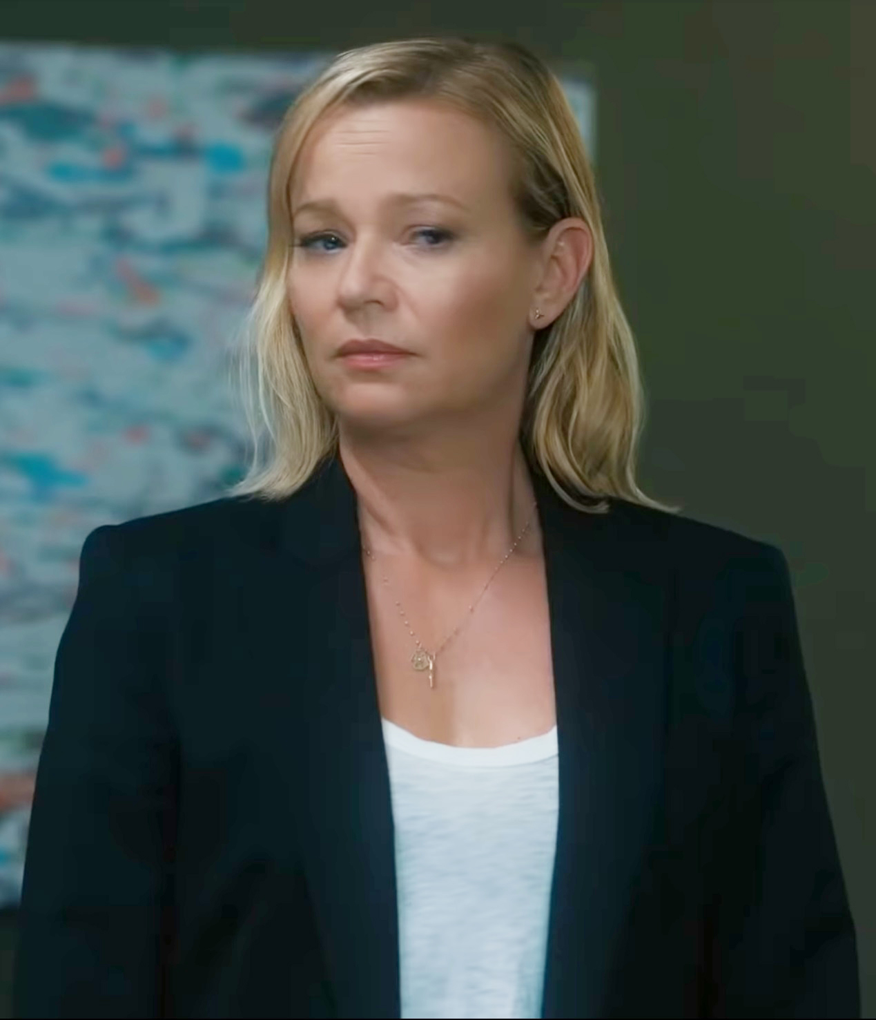 American actress Samantha Mathis guest starring as Sara Hammon, the new COO of Taylor Mason Capital in Billions, Showtime TV series. Website